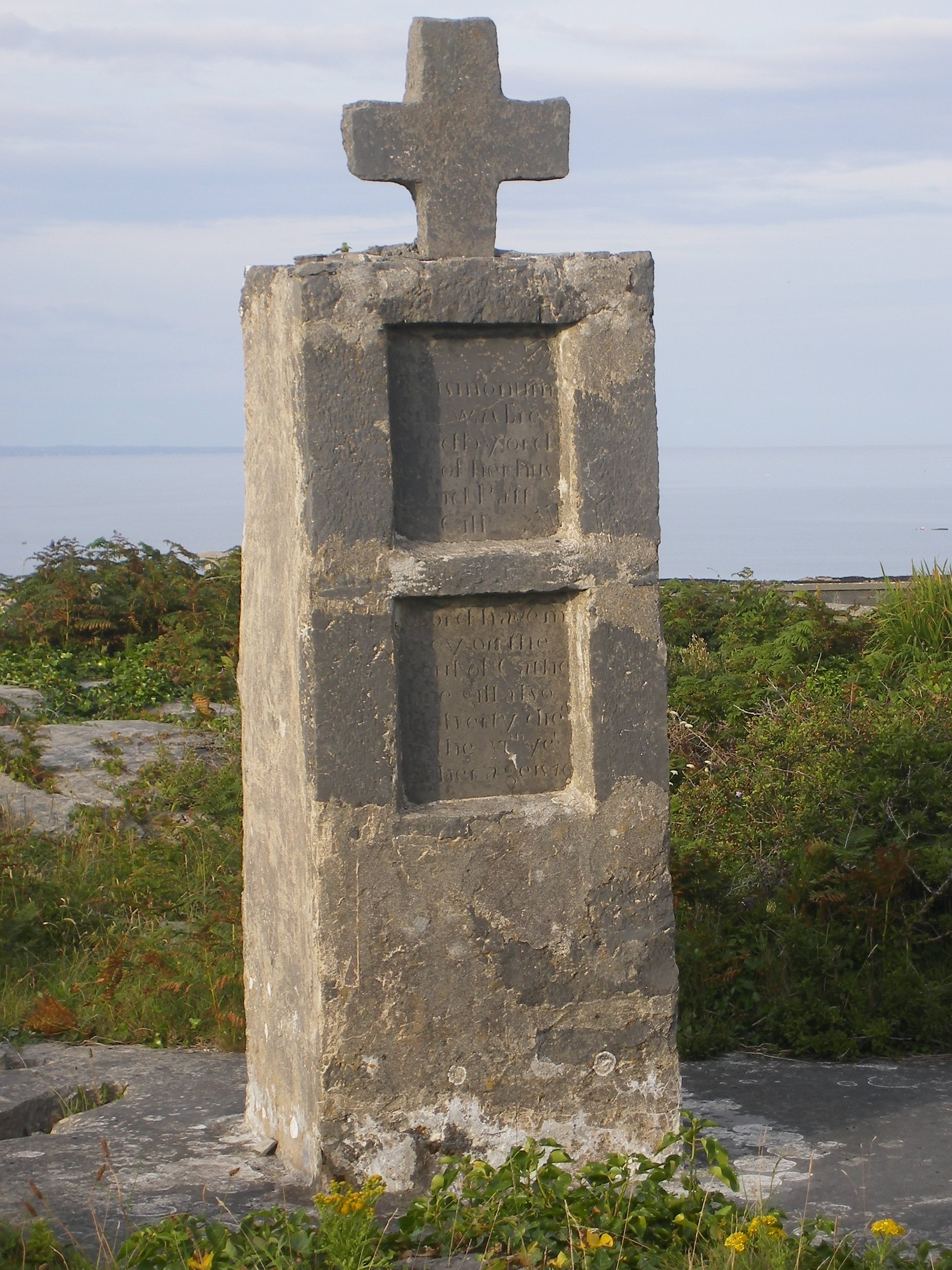 Inishmore